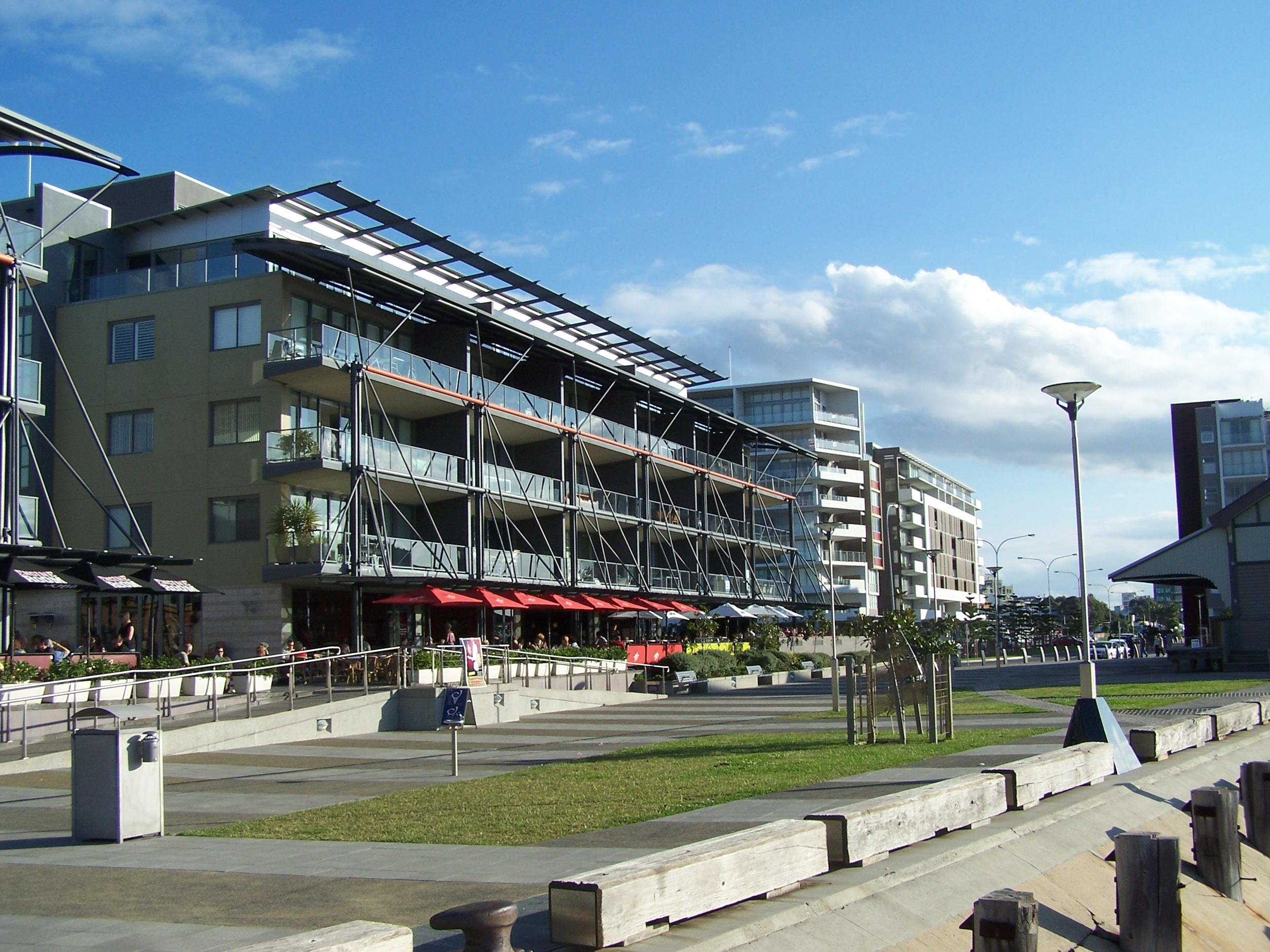 Waterfront development in Newcastle, Australia.